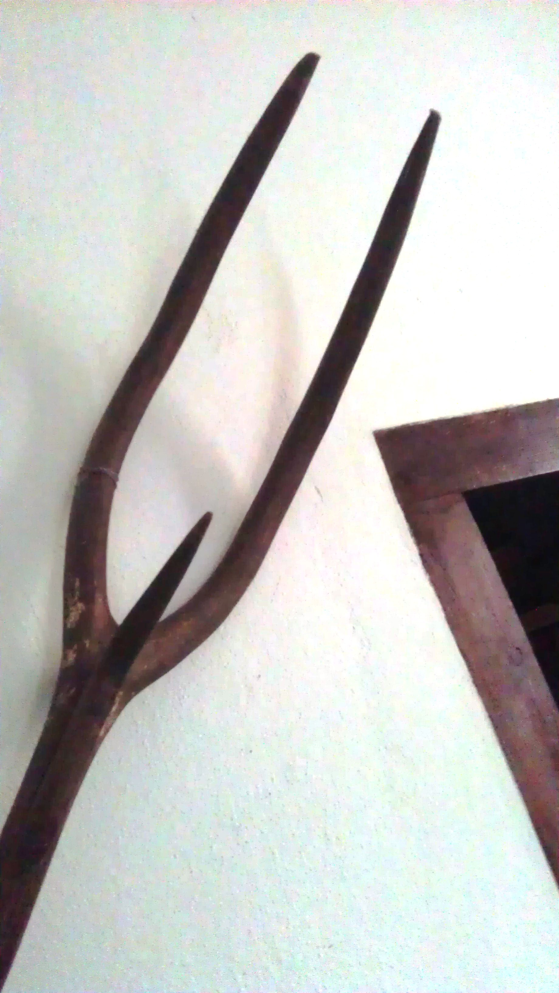 Wooden hayfork